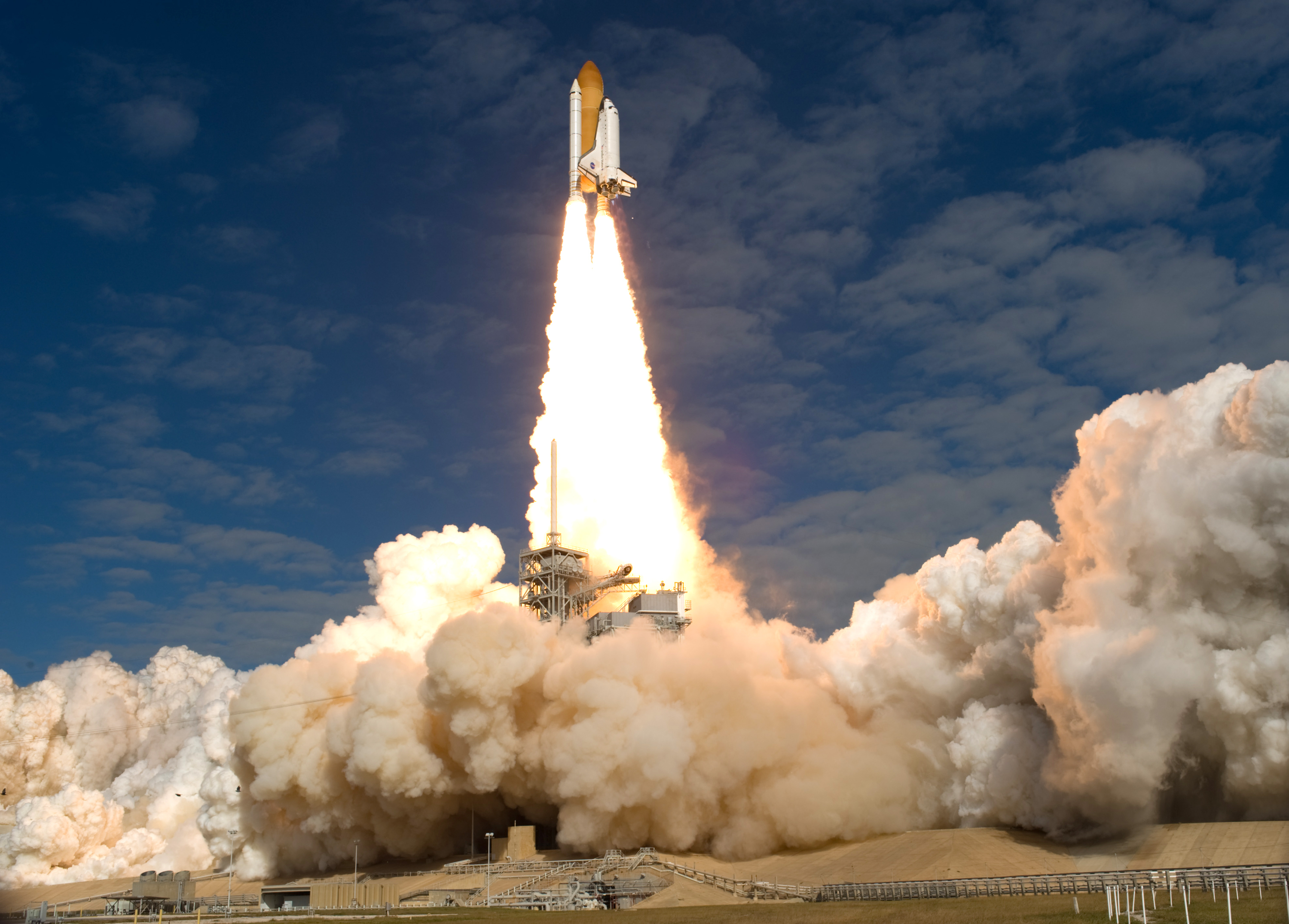 CAPE CANAVERAL, Fla. - Like a phoenix rising from the flames, space shuttle Atlantis takes flight from Launch Pad 39A at NASA's Kennedy Space Center in Florida. Liftoff on its STS-129 mission came at 2:28 p.m. EST Nov. 16. Aboard are crew members Commander Charles O. Hobaugh; Pilot Barry E. Wilmore; and Mission Specialists Leland Melvin, Randy Bresnik, Mike Foreman and Robert L. Satcher Jr. On STS-129, the crew will deliver two Express Logistics Carriers to the International Space Station, the largest of the shuttle's cargo carriers, containing 15 spare pieces of equipment including two gyroscopes, two nitrogen tank assemblies, two pump modules, an ammonia tank assembly and a spare latching end effector for the station's robotic arm. Atlantis will return to Earth a station crew member, Nicole Stott, who has spent more than two months aboard the orbiting laboratory. STS-129 is slated to be the final space shuttle Expedition crew rotation flight. For information on the STS-129 mission and crew, visit